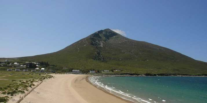 Slievemore, Achill Island, Ireland. Photo courtesy of Photobloc Canvas Prints